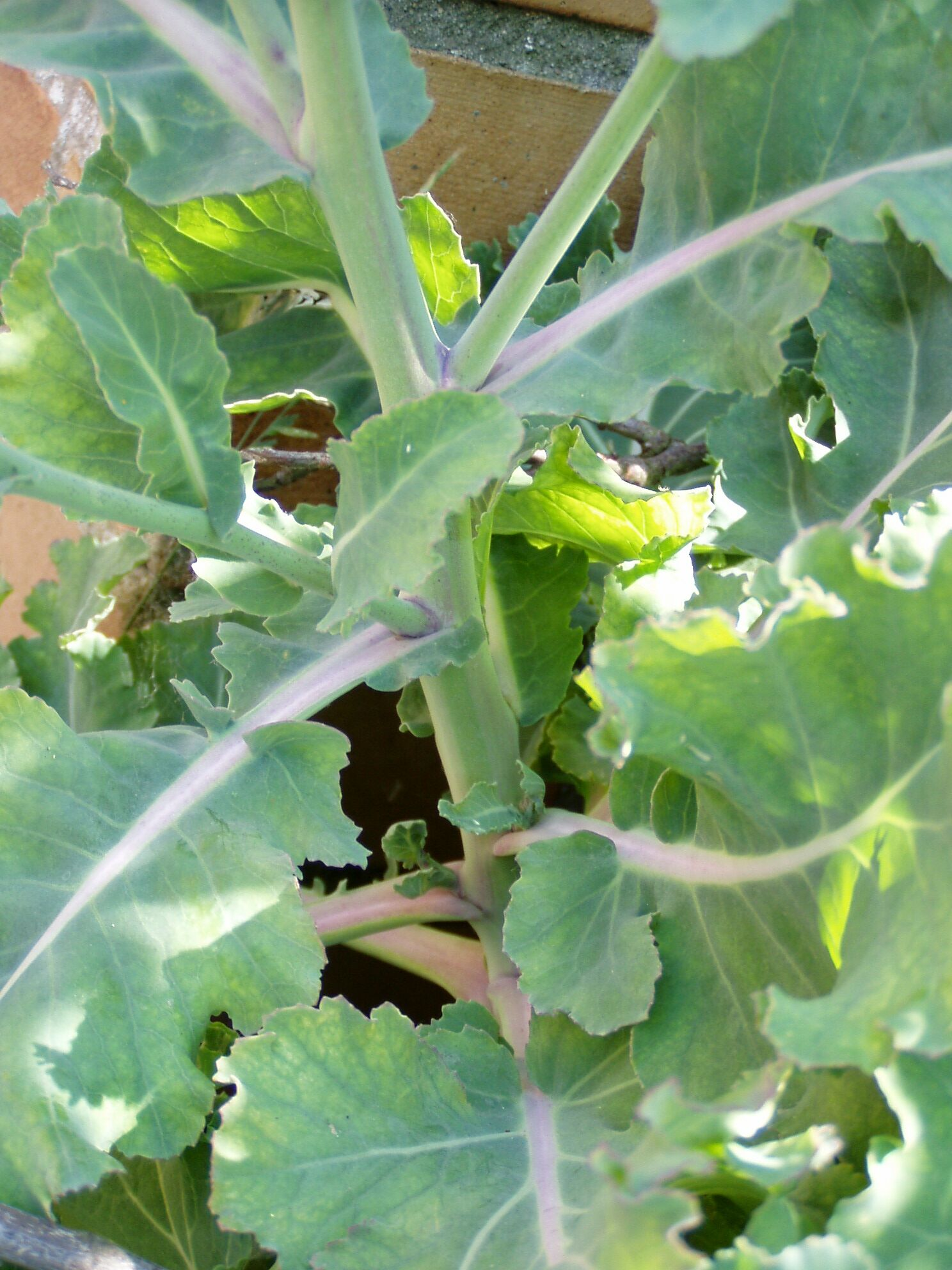 Brassica oleracea, wildtype from Heligoland